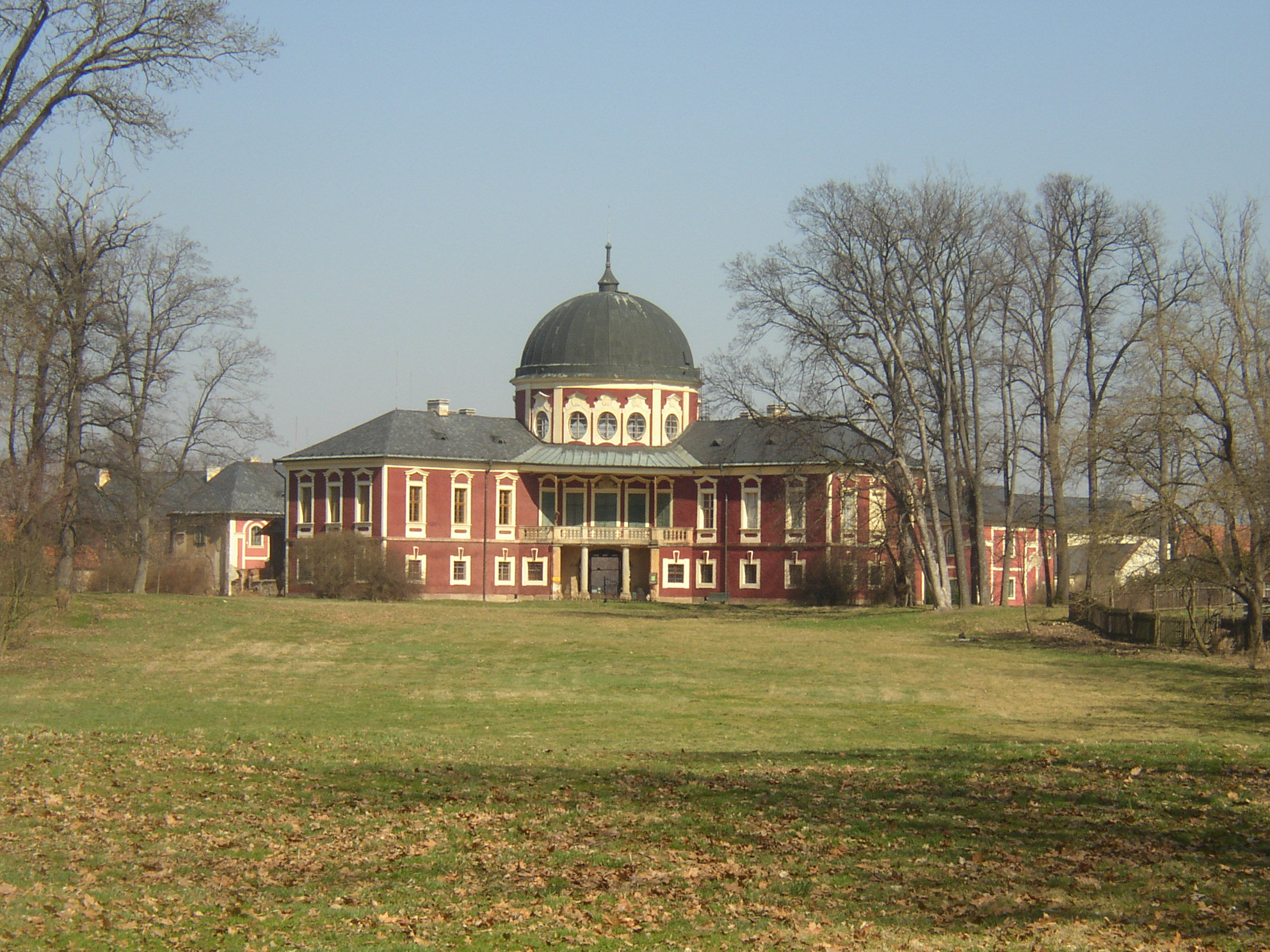 Veltrusy Château, Mělník District, Czech Republic. A view from south.